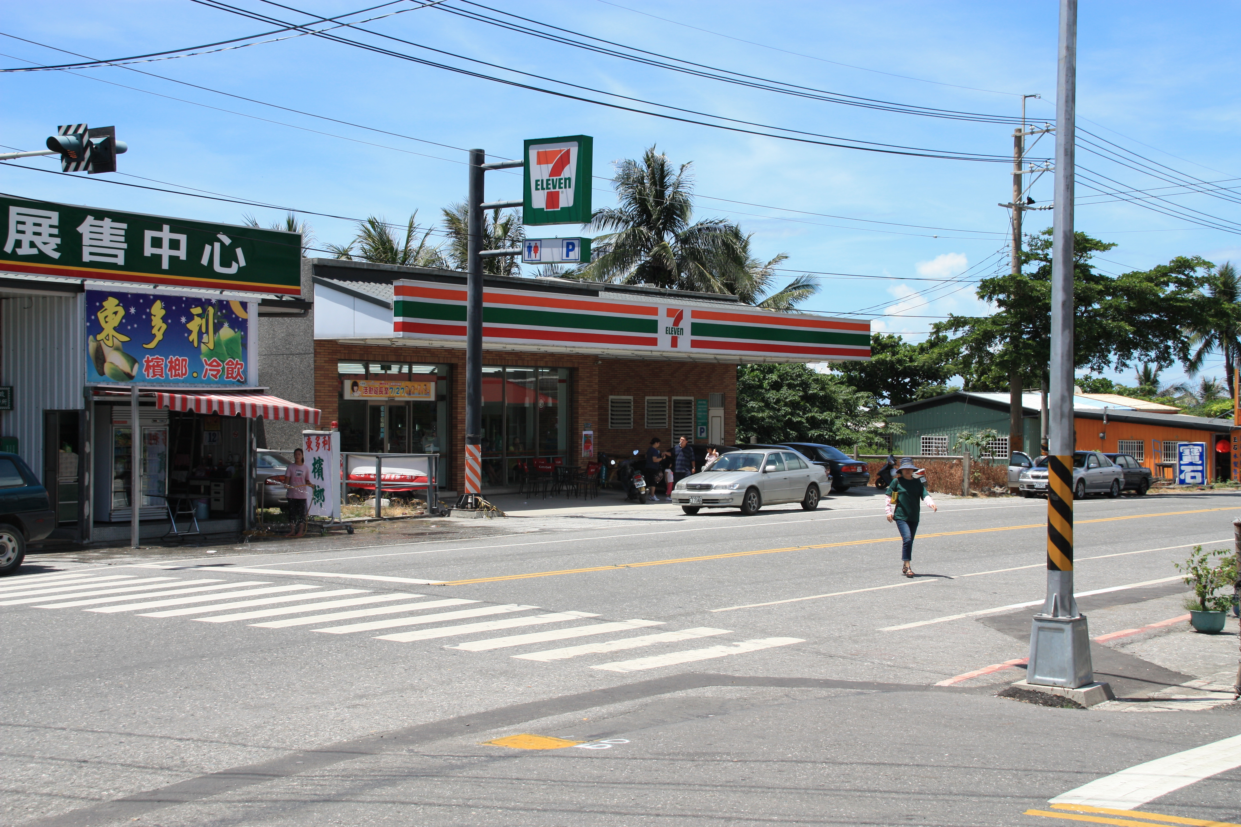 Taitung CountyDōngHé TownshipDōngHéHăiÀn Rd.